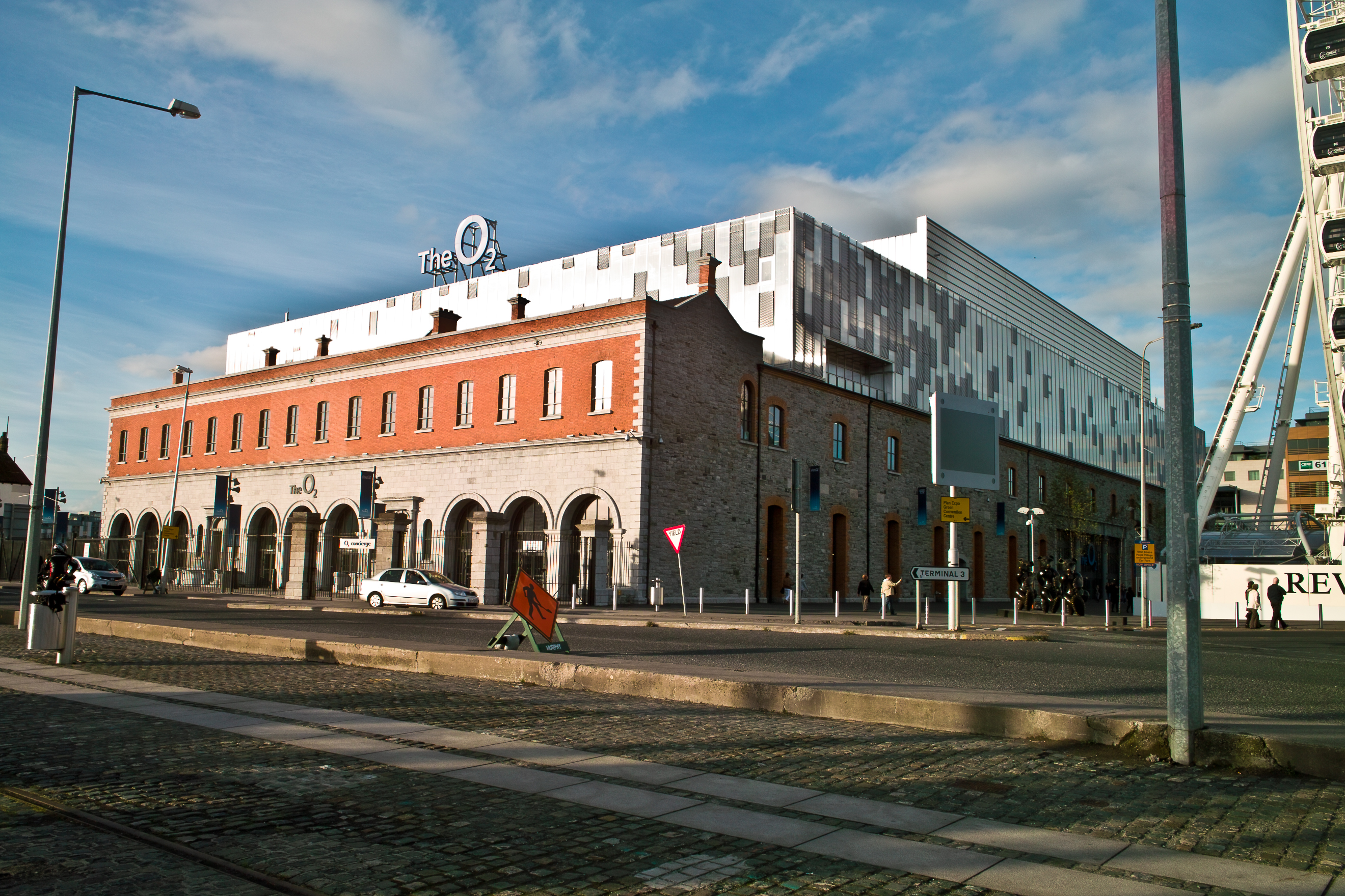 The O2 At The Point - Dublin